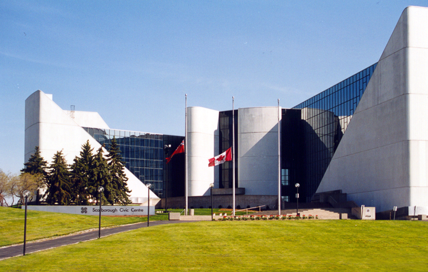 Scarborough Civic Centre, Toronto, Ontario, Canada. Build in 1973. Architect: Moriyama & Teshima.